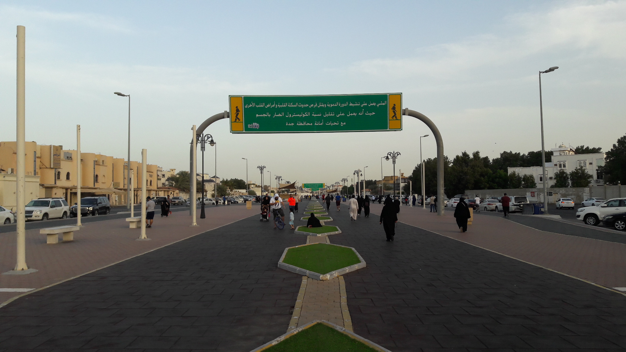 Rehab Jogging Track, Jeddah